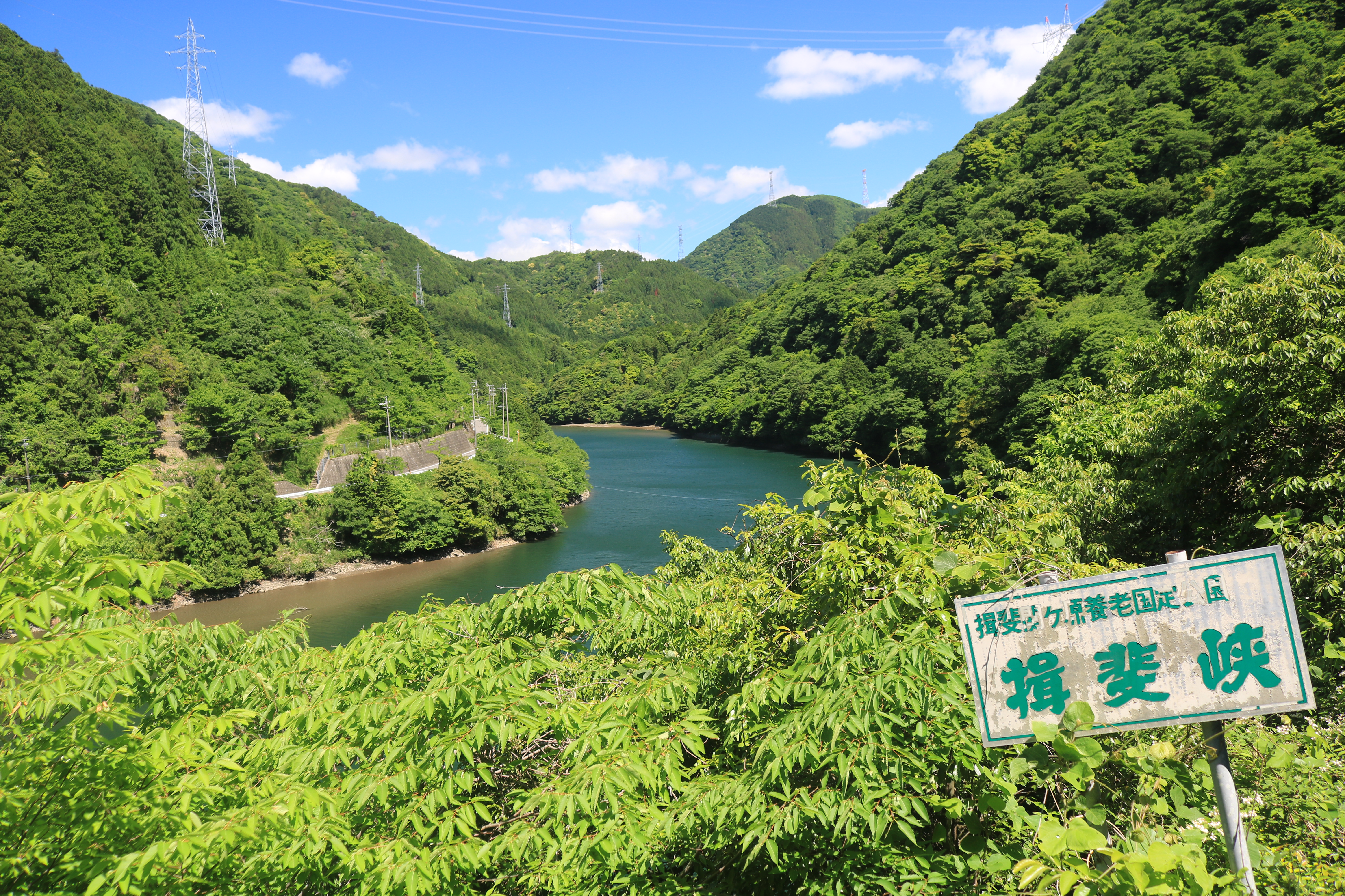 Ibi Ravine of Ibi River in Ibigawa, Gifu Prefecture, Japan.